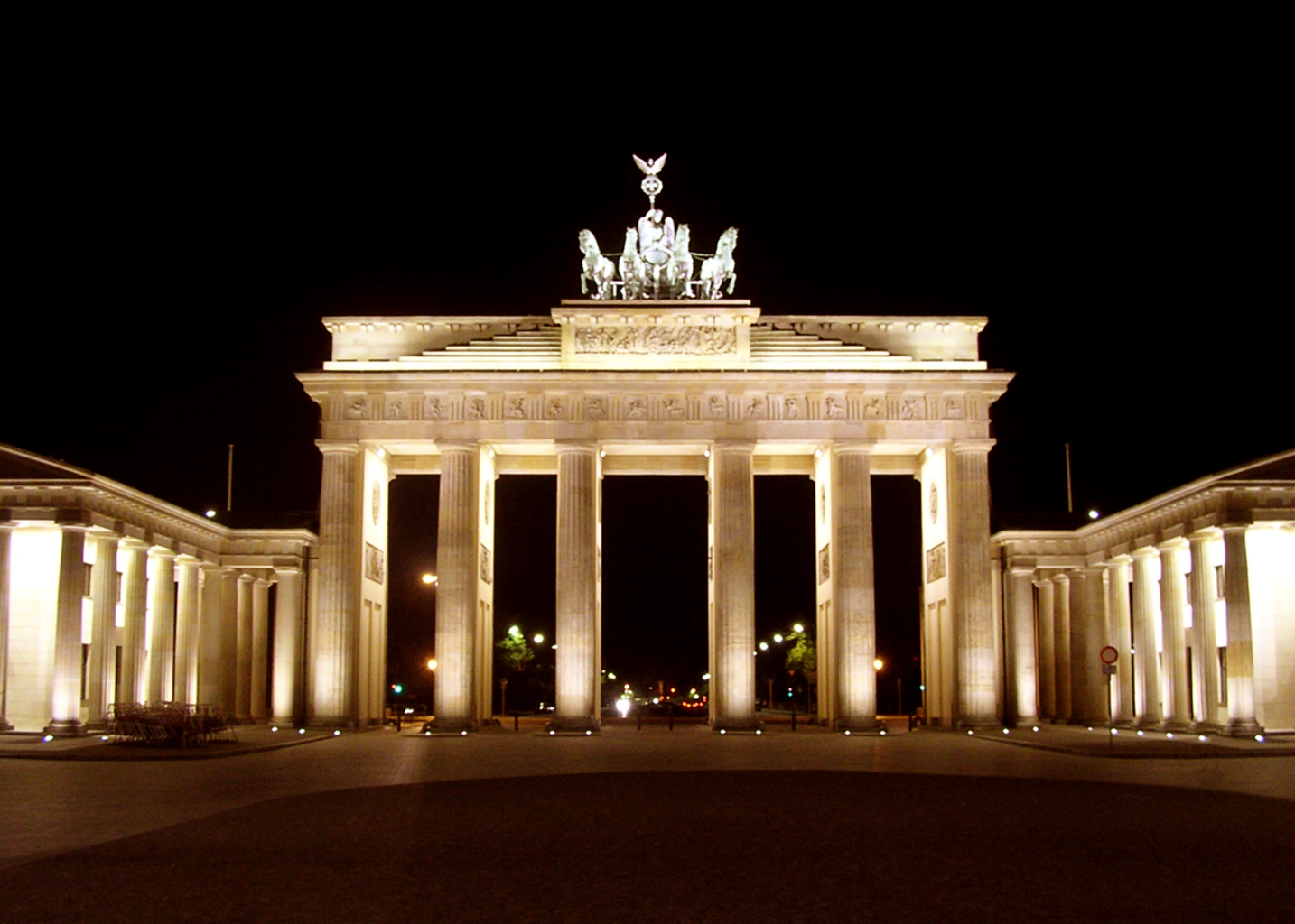 Brandenburg Gate at night (2004)